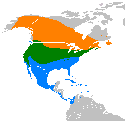 Verbreitungsgebiet der Hudsonweihe (Circus hudsonius). Orange: Breeding distribution Green: All-time distribution Blue: Wintering distribution Based on: James Ferguson-Lees & David A. Christie: Greifvögel der Welt. Franck-Kosmos Verlag, Stuttgart 2009. ISBN 9783440115091, p. 142.